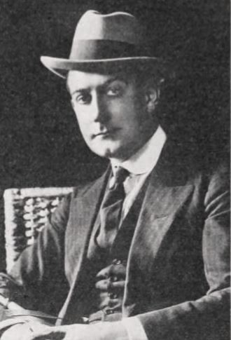 Still from the American film A Man's Home (1921) with Roland Bottomley, on page 74 of the October 15, 1921 Exhibitors Herald.